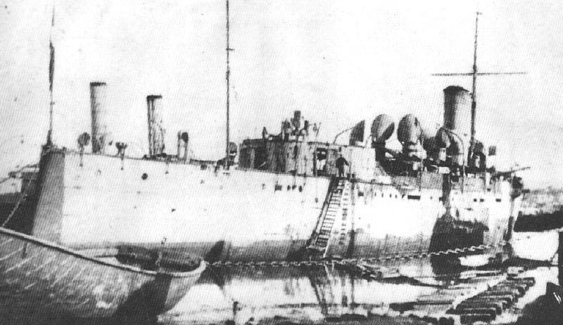 Ottoman cruiser Mecidiye at Golden Horn, 1919.